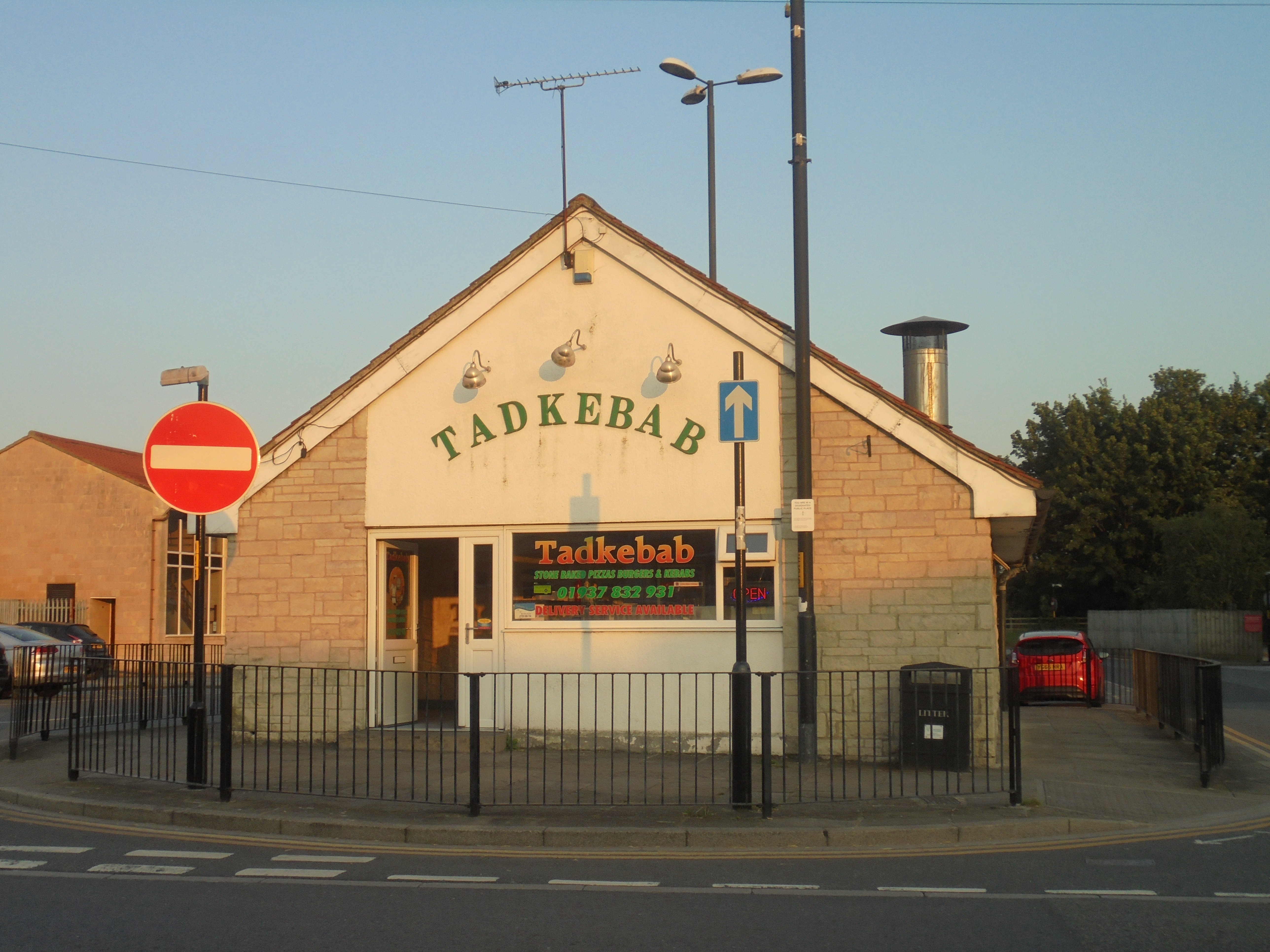 Tadkebab, Commercial Street, Tadcaster, North Yorkshire. Taken on the evening of Monday the 26th of August 2019.